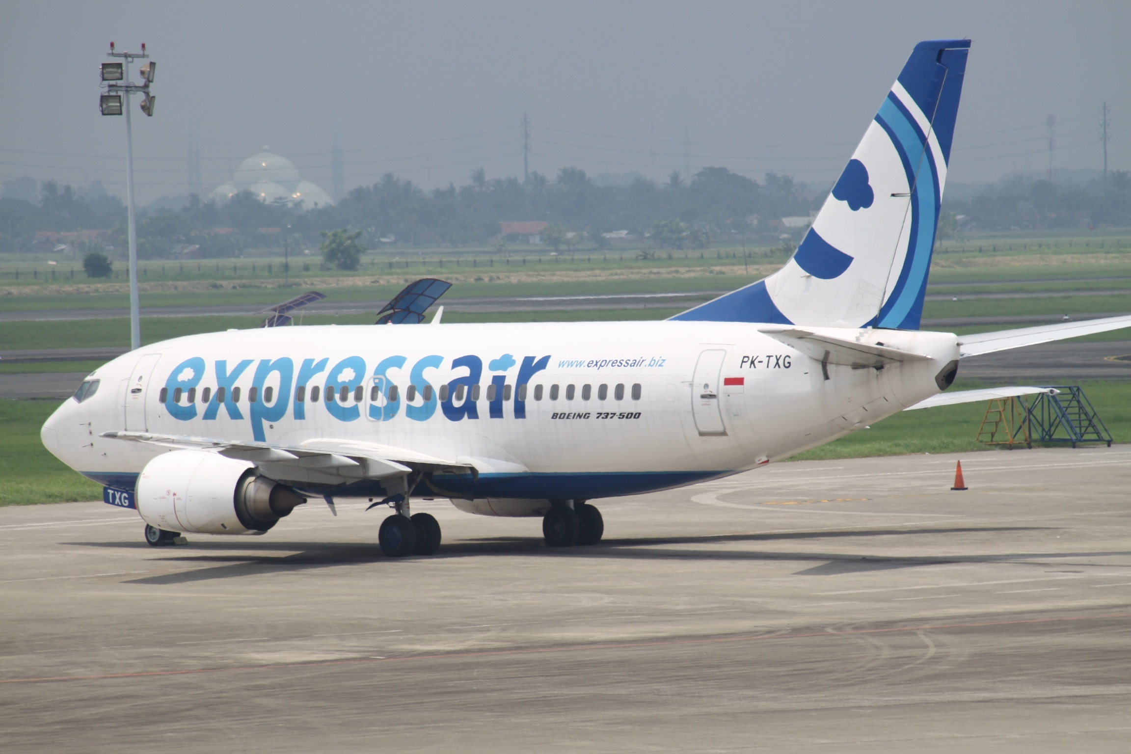 At Jakarta Soekarno-Hatta